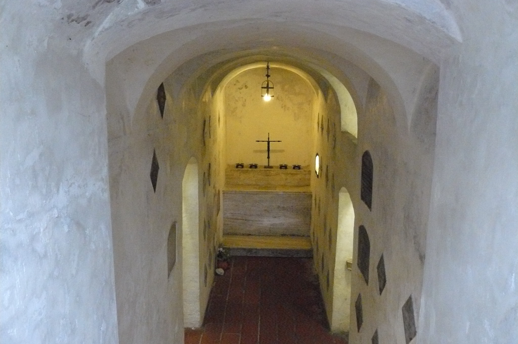 Crypt in Kapuzinerkloster in Altotting, Bavaria.